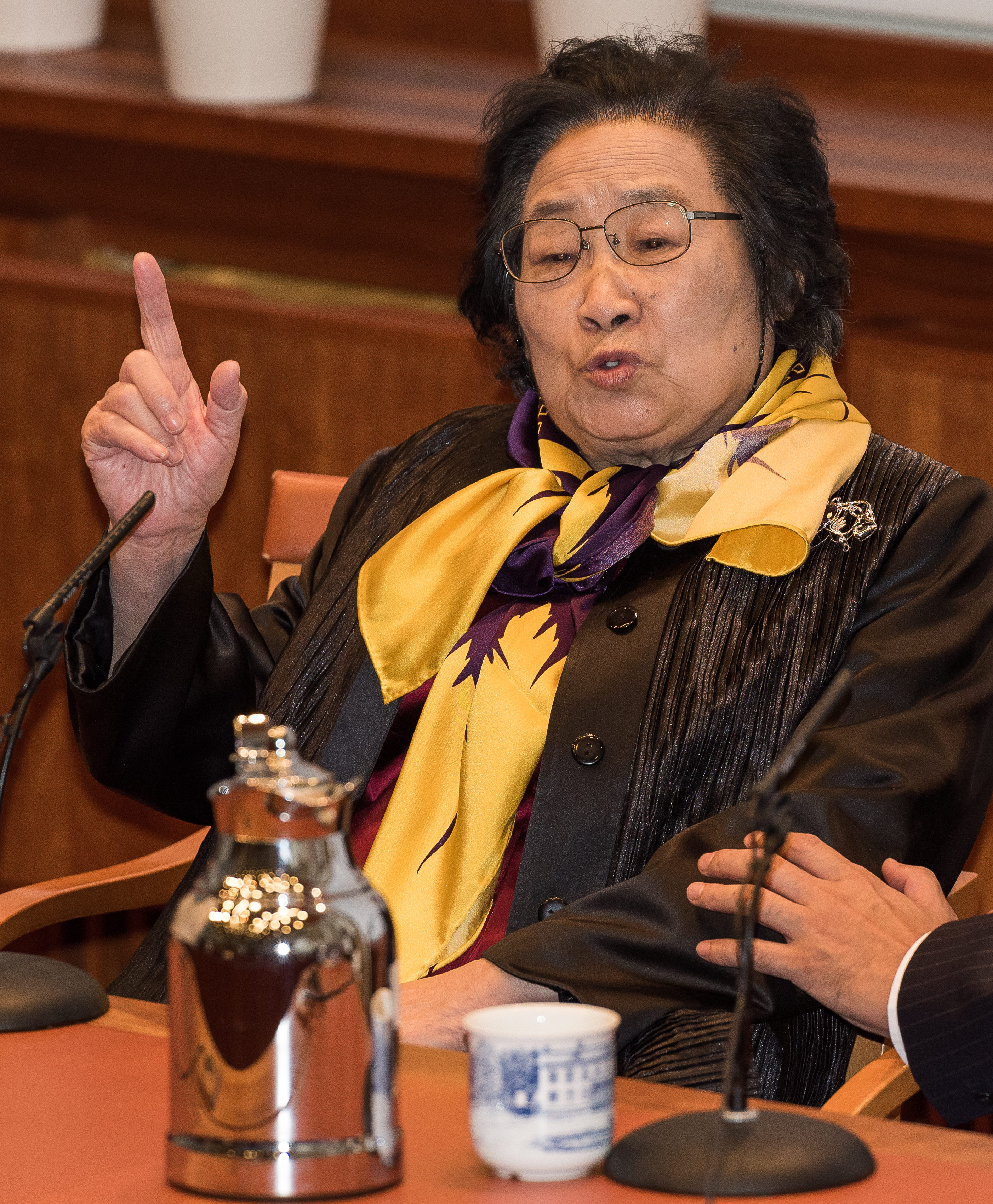 Tu Youyou, Nobel Laureate in medicine in Stockholm December 2015